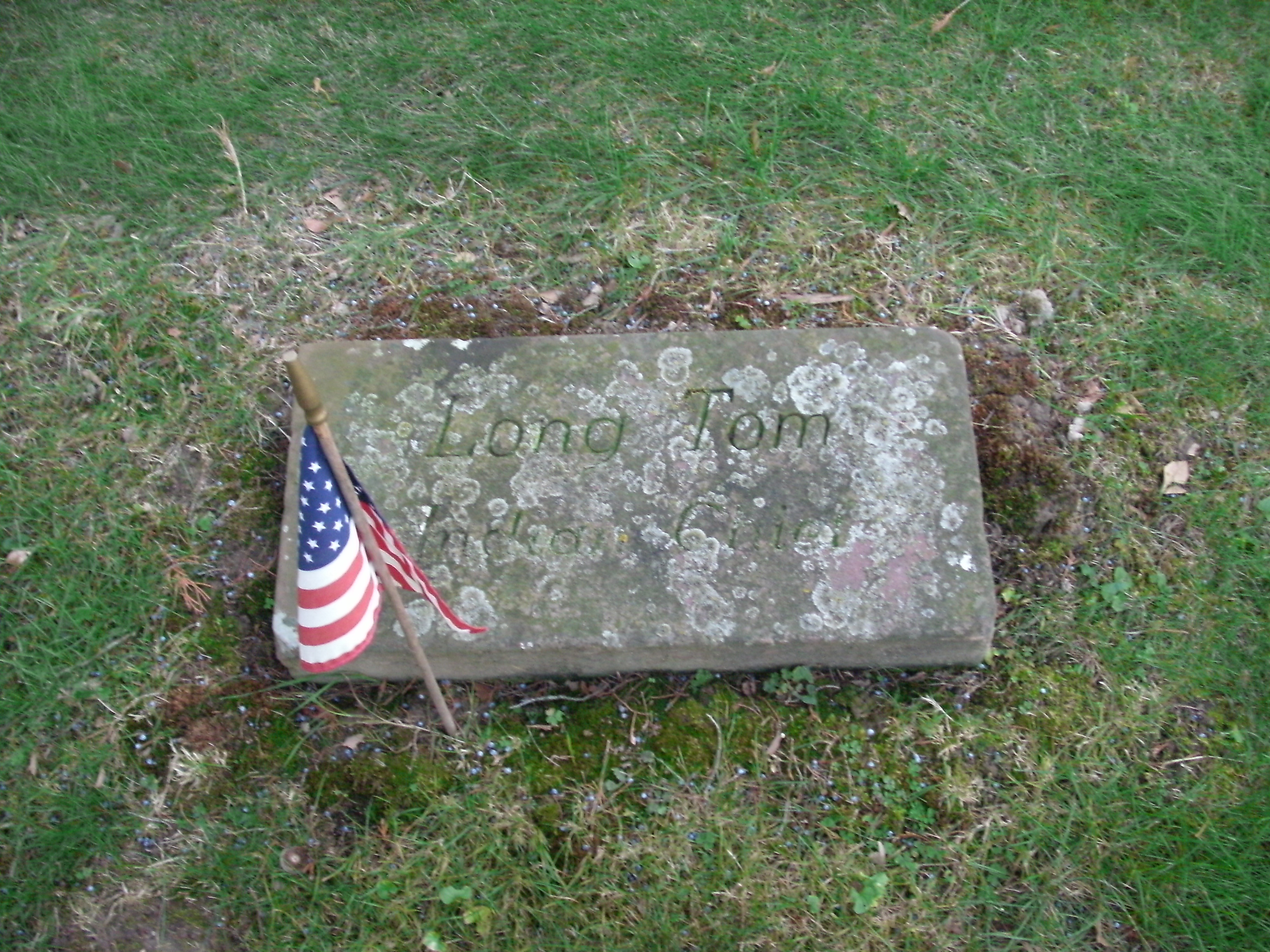 Pohick Church - November, 2009 GEDSC DIGITAL CAMERA